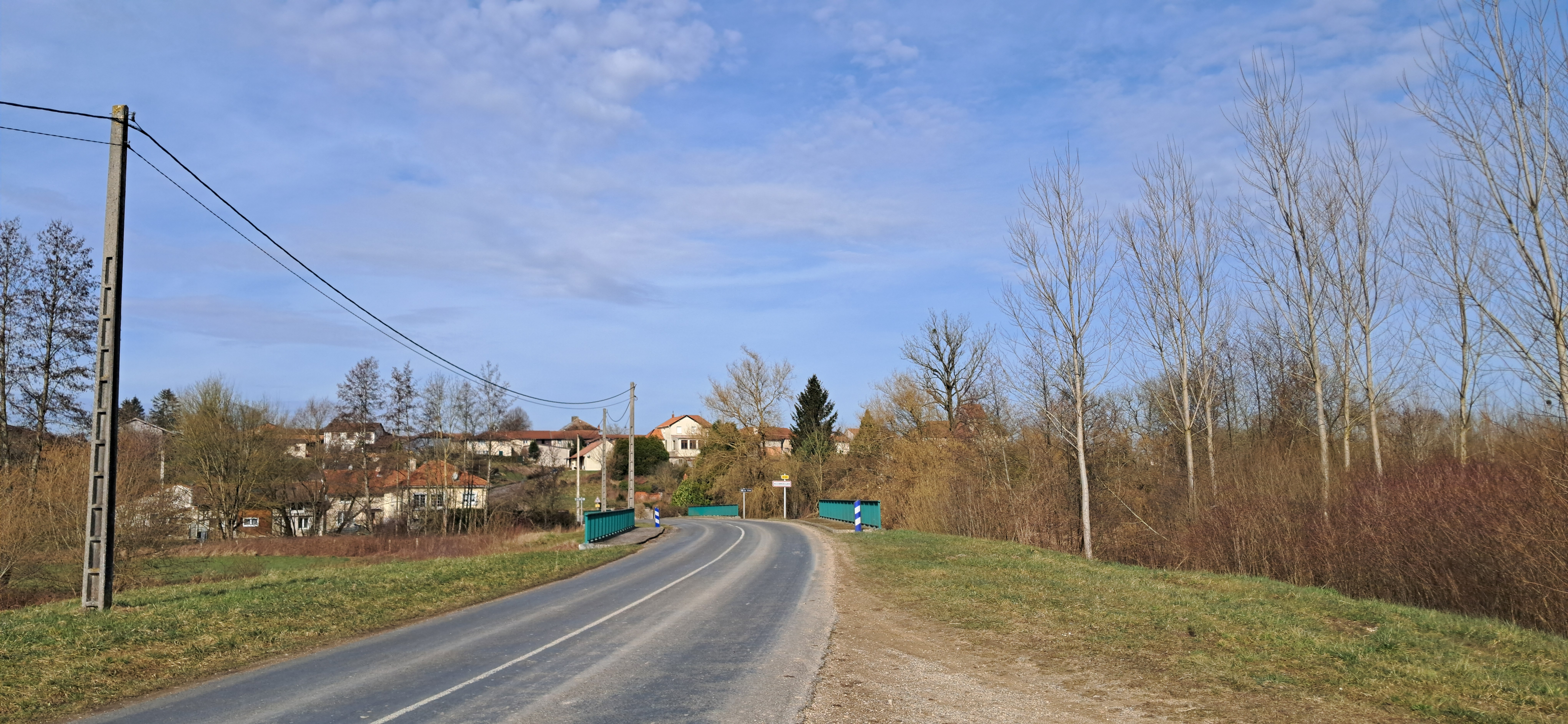 Photography of Alliancelles (France)